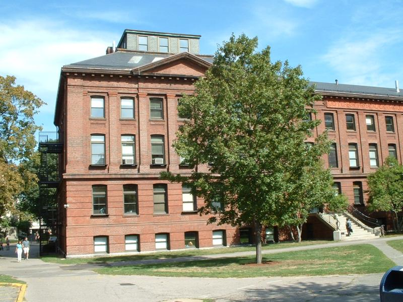 "I took this picture of Jefferson Labs at Harvard and release it to the public domain. Lubos Motl"